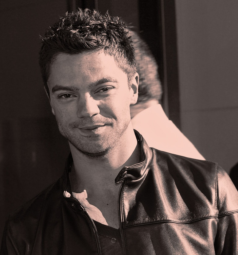 Dominic Cooper at the 2008 Toronto International Film Festival